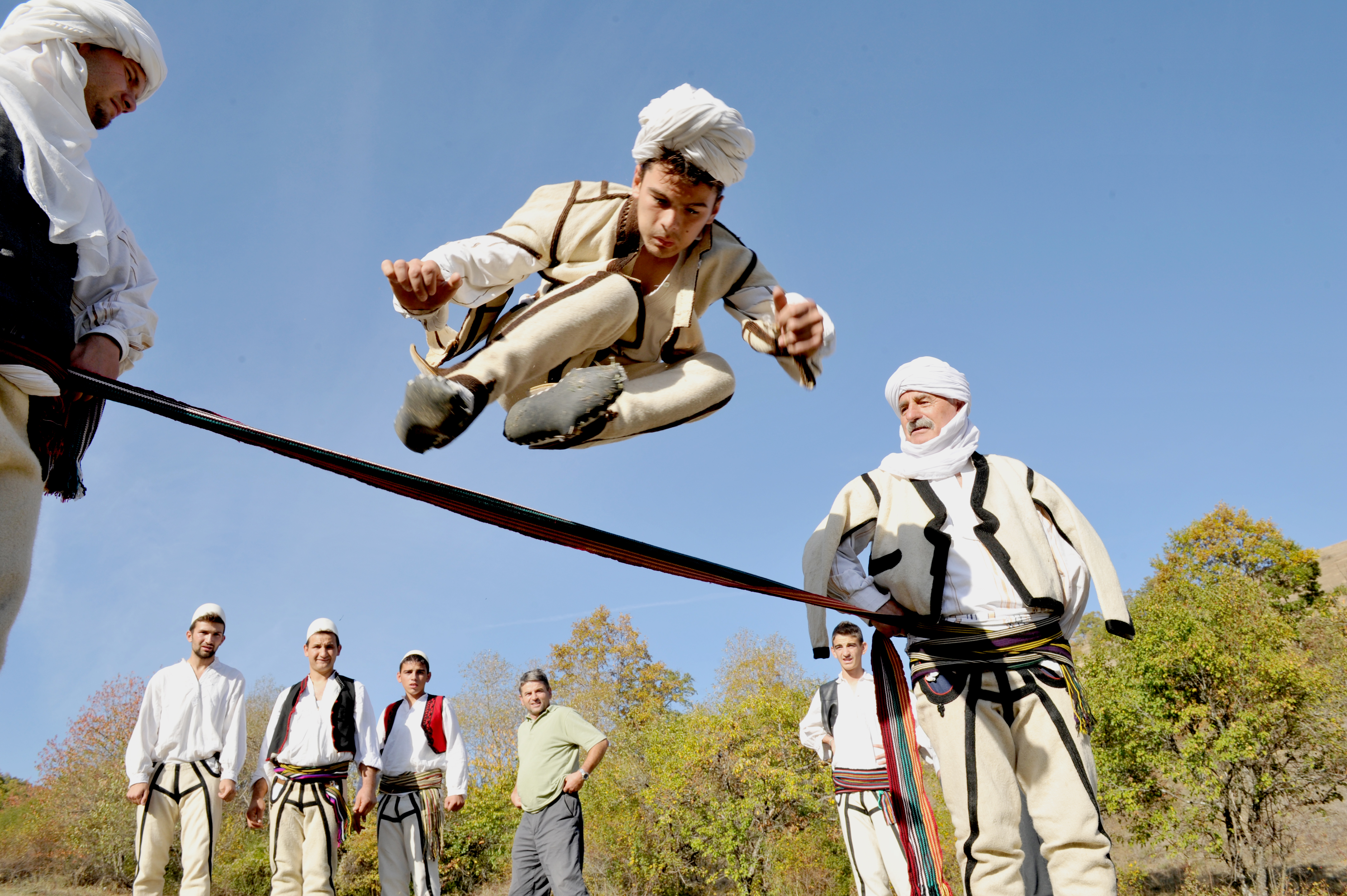 ALBANIADA sporte tradicionale shqiptare (34)